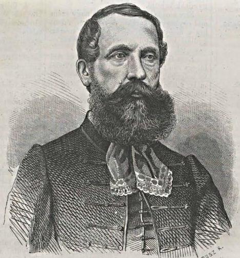 Portrait of Mihály Mikó